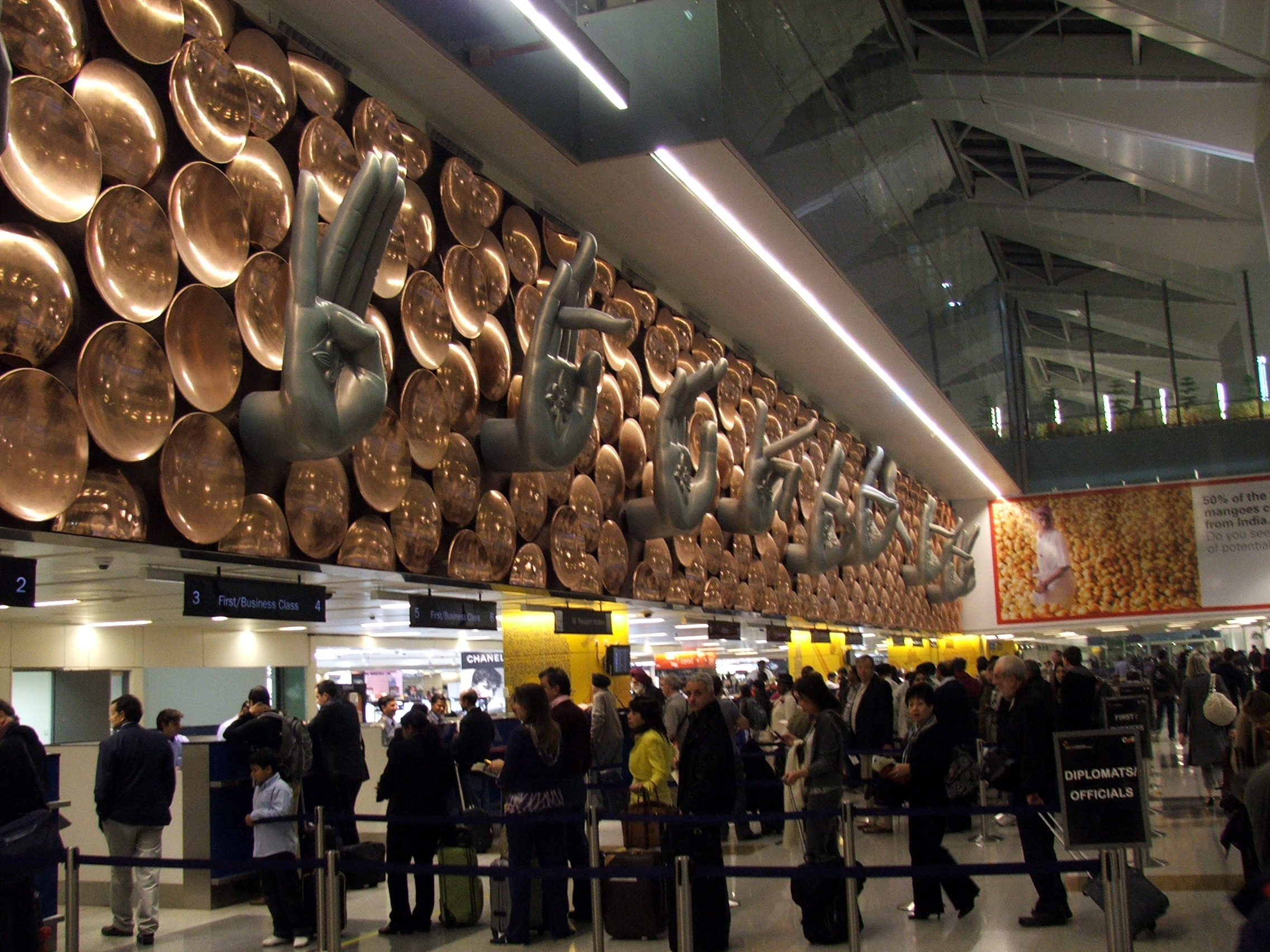 Mudras at Arrival Hall of Terminal 3 of Indira Gandhi International Airport in Delhi.